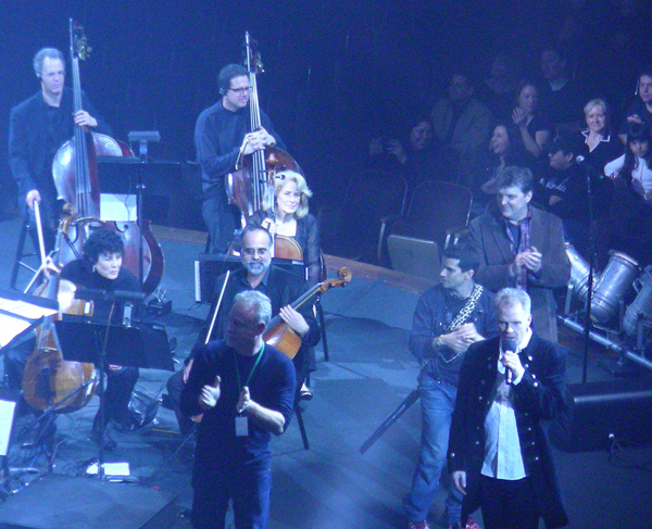 Martin O'Donnell at Video Games Live at San Francisco in 2008.